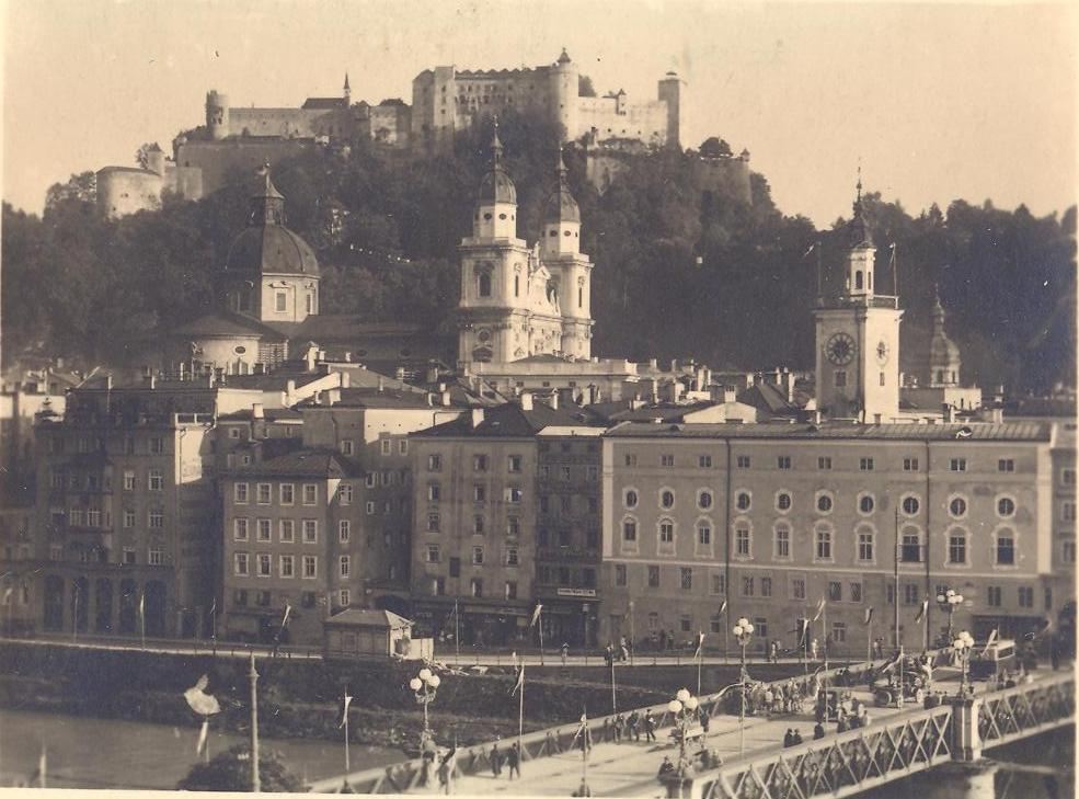 Salzburg